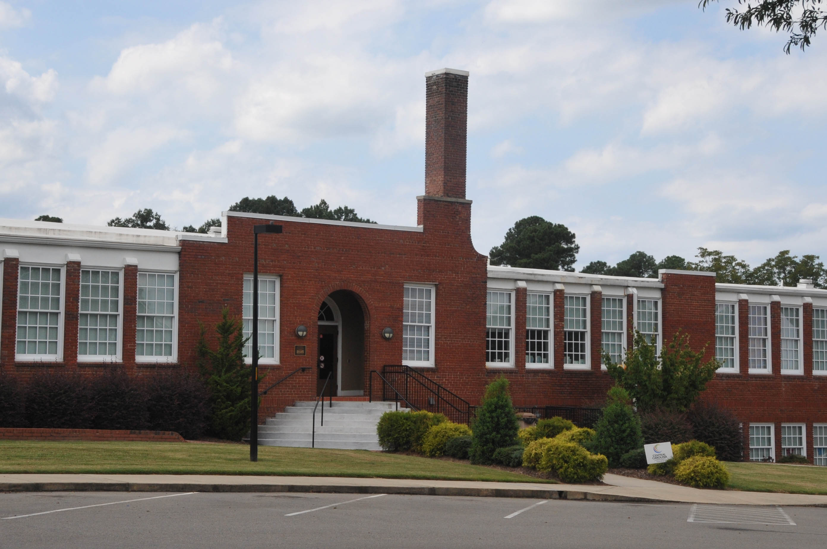 Built in 1927; functioned as a school for African-Americans.